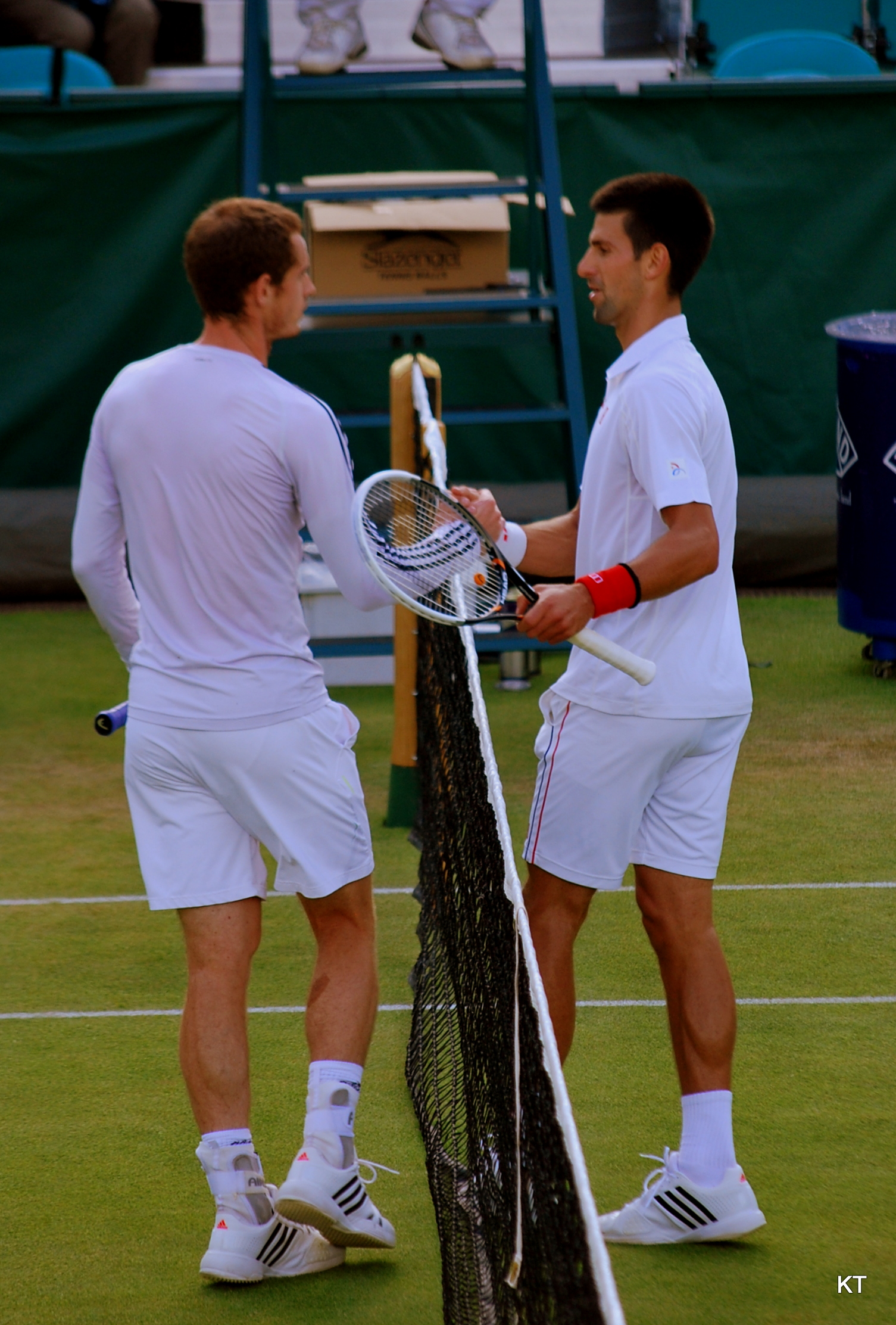 Andy Murray & Novak Djokovic at the end of their match. The Boodles, Stoke Park 2012.